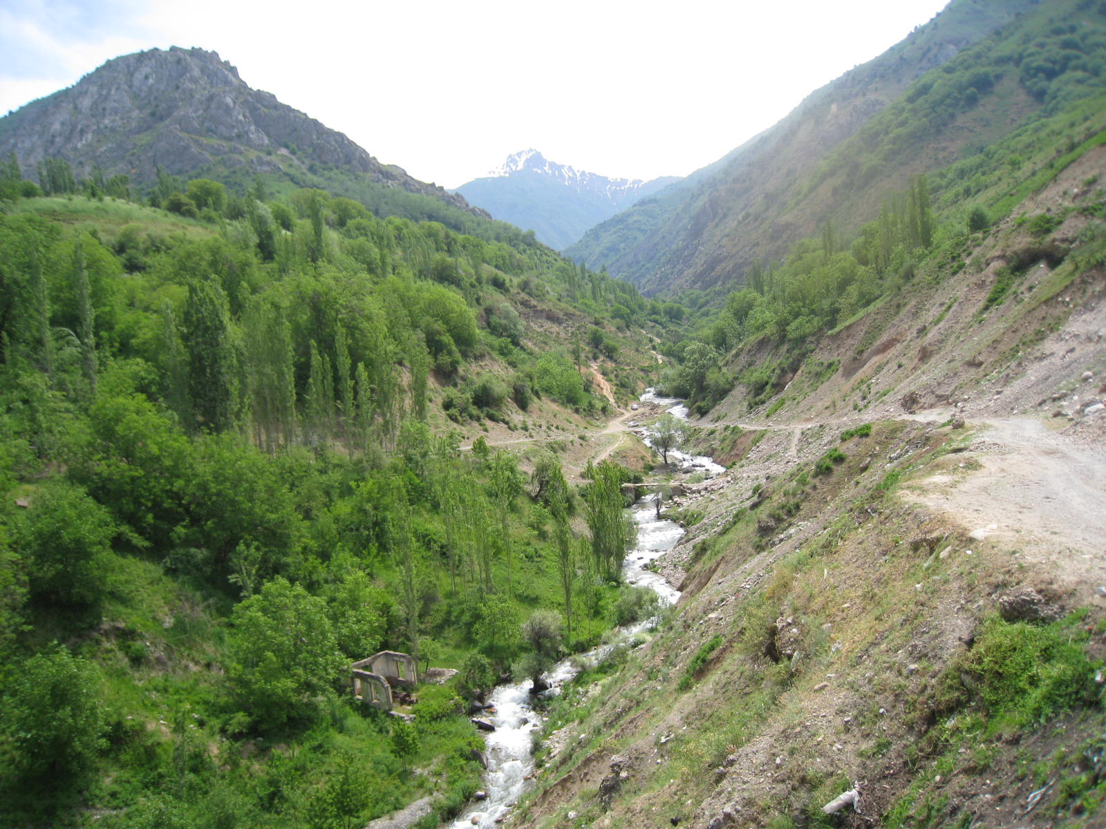 Aksarsay River, Uzbekistan